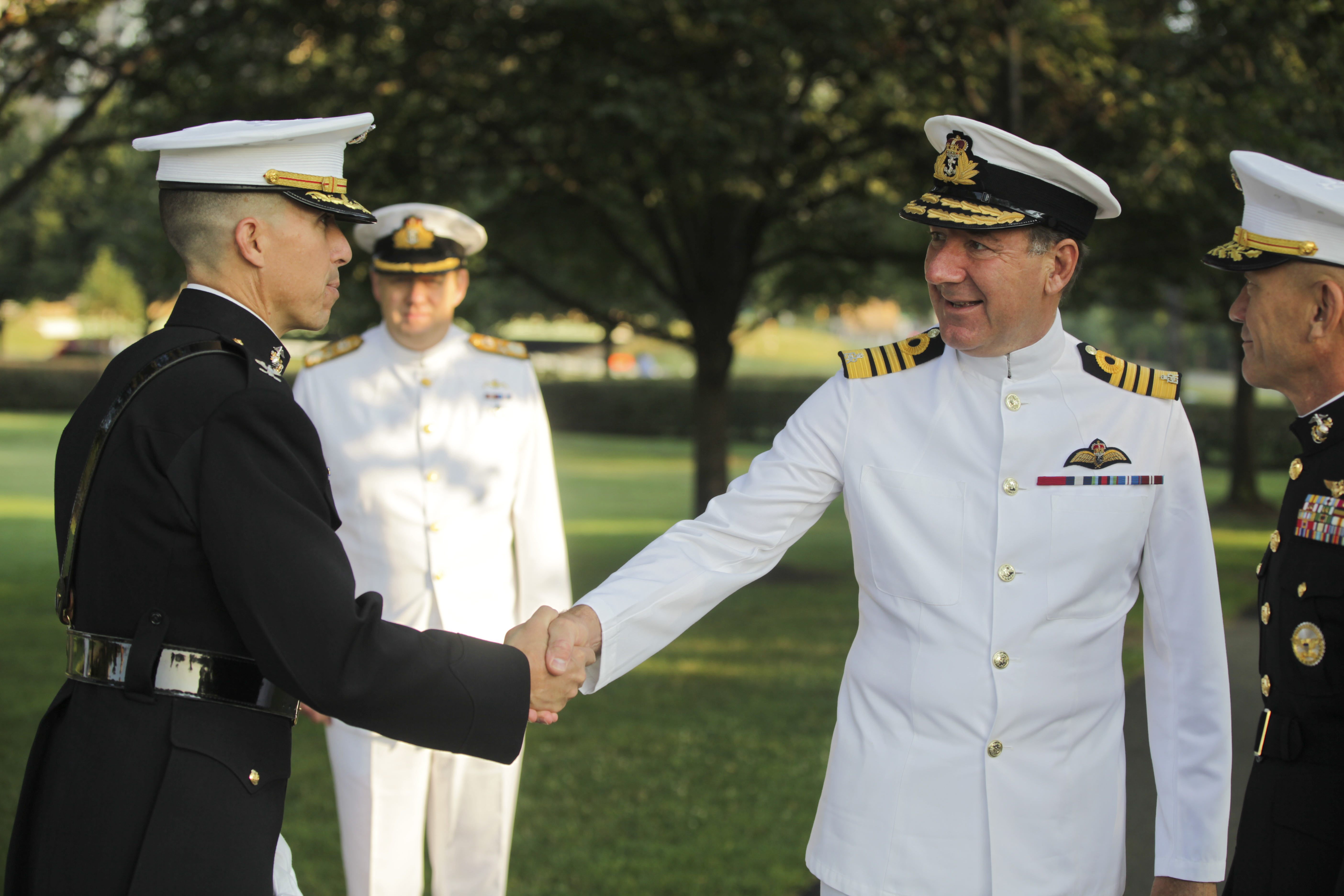 The First Sea Lord and Chief of Naval Staff of the British Royal Navy, Adm. Sir George Zambellas, right, greets U.S. Marine Corps Col. Benjamin Watson prior to a wreath laying ceremony in Arlington, Va., July 31, 2014. Zambellas is taking part in the Commandant of the Marine Corps' Counterpart Program, which invites foreign military leaders to visit the United States and interact with U.S. military leaders. (U.S. Marine Corps photo by Cpl. Michael C. Guinto/Released)